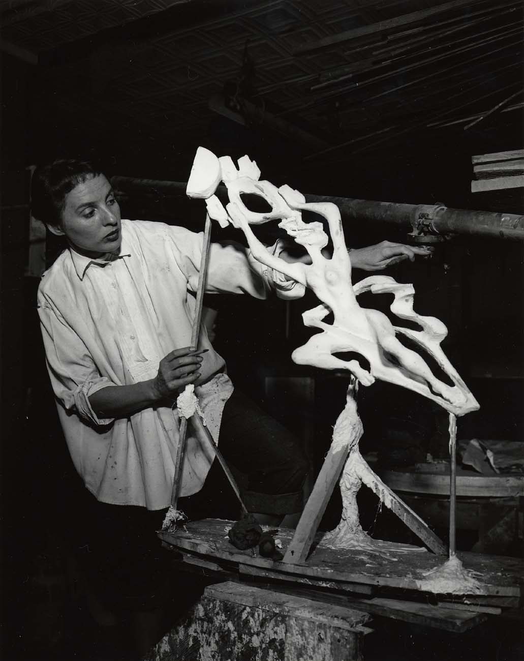 Description: Gwen Lux was a sculptor, designer, lecturer, writer and teacher. Her sculptures combined abstraction and realism, and were usually constructed from polyester resin concrete and metals. She taught sculpture at the Arts & Crafts Society of Detroit. Creator/Photographer: Peter A. Juley & Son Medium: Black and white photographic print Dimensions: 8 in x 10 in Culture: American Persistent URL: [1] Repository: Archives of American Art Native nameArchives of American ArtParent institutionSmithsonian InstitutionLocationWashington, D.C.Coordinates38° 53′ 52.44″ N, 77° 01′ 21.72″ W Established1954Web page control : Q2860568 VIAF: 151134814 ISNI: 0000 0001 2185 0758 LCCN: n79065944 NLA: 35007823 GND: 1085306631 WorldCat Collection: Peter A. Juley & Son Collection - The Peter A. Juley & Son Collection is comprised of 127,000 black-and-white photographic negatives documenting the works of more than 11,000 American artists. Throughout its long history, from 1896 to 1975, the Juley firm served as the largest and most respected fine arts photography firm in New York. The Juley Collection, acquired by the Smithsonian American Art Museum in 1975, constitutes a unique visual record of American art sometimes providing the only photographic documentation of altered, damaged, or lost works. Included in the collection are over 4,700 photographic portraits of artists. Accession number: J0001886